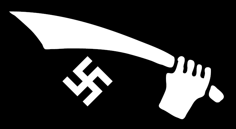 A version of the emblem of the 13th SS "Handschar" division (see en:13th Waffen Mountain Division of the SS Handschar (1st Croatian)).